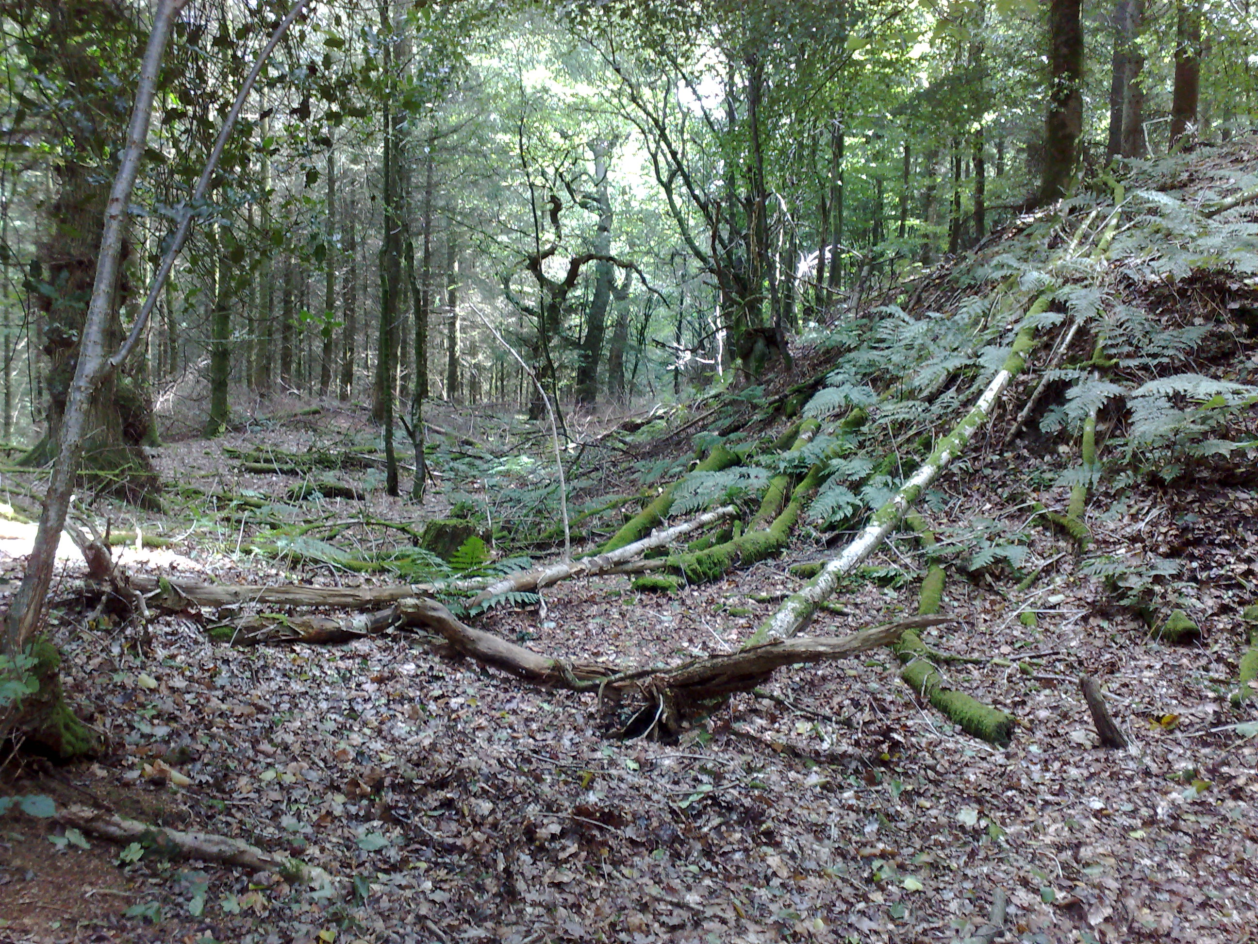 The ruins of the earthwork called Kenwalch's Castle, Penselwood